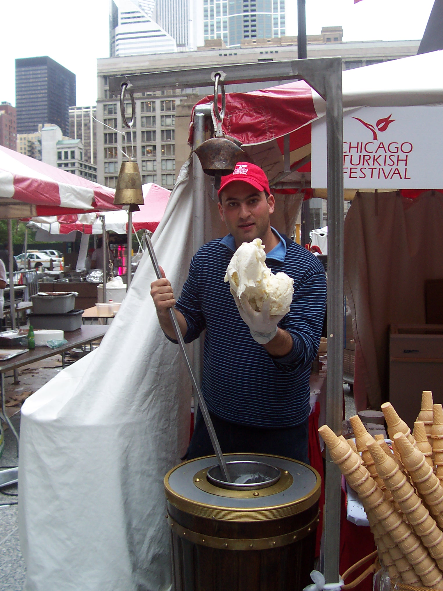 A shopkeeper holds a mass of Maraş dondurması at the Chicago Turkish Festival. Photo by Iustinus, 9-16-05.